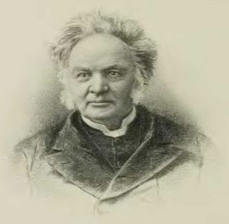 Photo of Egerton Ryerson